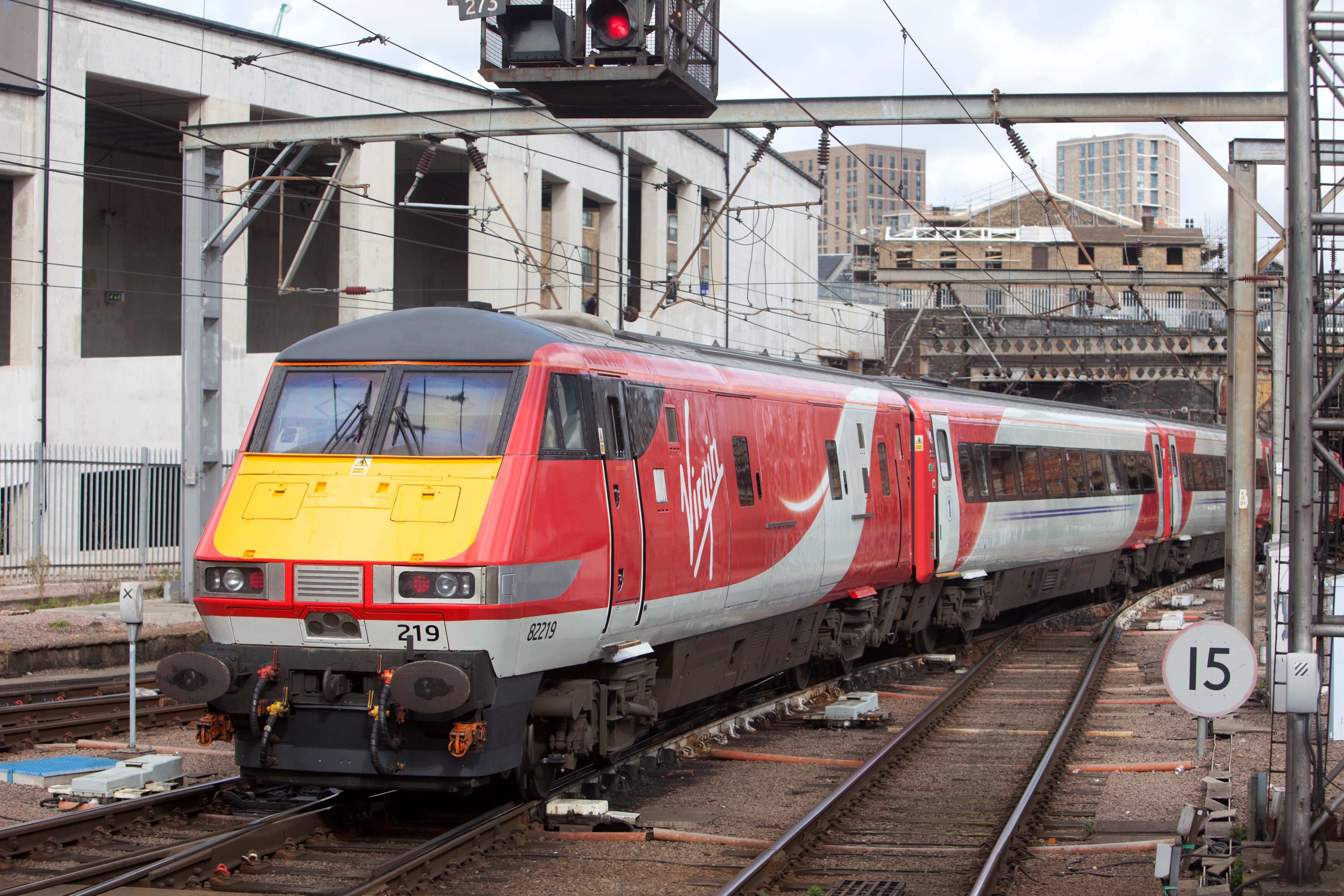 A Virgin Trains East Coast Intercity 225 set arrives at King's Cross. Original description: The £21 million investment will be spent on the complete refurbishment of the train’s interiors. A total of 401 carriages will be overhauled with 24,123 seats replaced along with refurbished toilets, new carpets and curtains. Leather seats will be fitted in First Class.